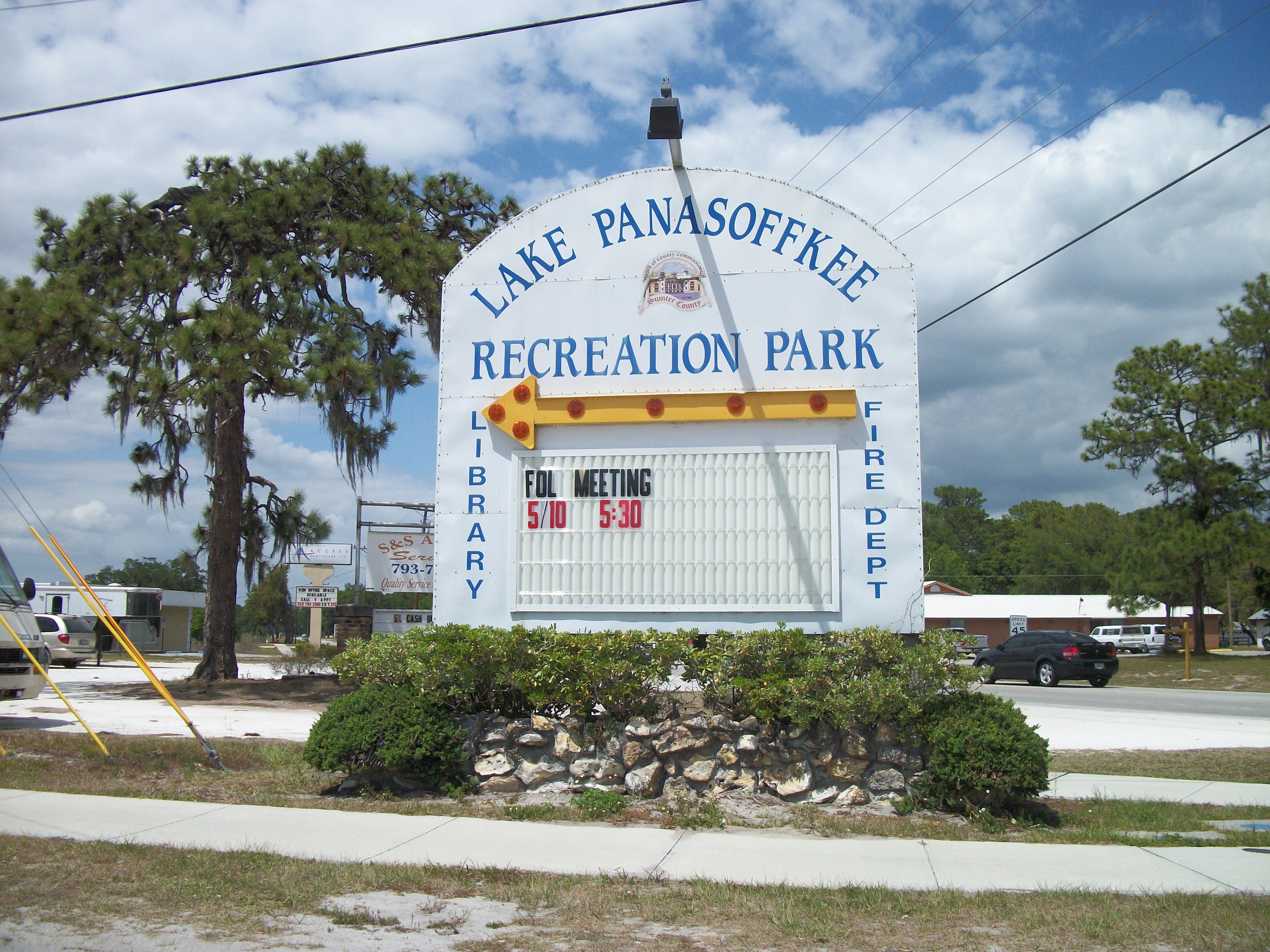 Sign for the Lake Panasoffkee Recreational Park on the northwest corner of Sumter County Road 470 and unshielded Sumter County Road 459 in Lake Panasoffkee, Florida. The sign also includes the local branches of the Sumter County Fire Department and Library.